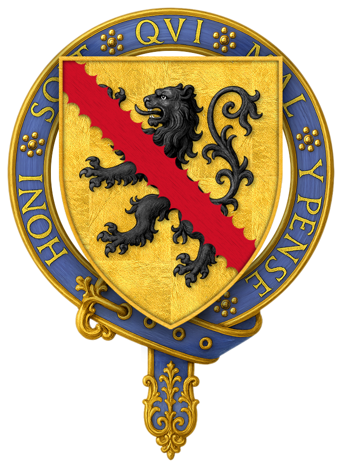 Coat of Arms of Sir Robert de Namur, KG “ Sir Robert de Namur… Arms: Or, a lion rampant Sable, debruised by a bend engrailed Gules. ” BELTZ, George Frederick, Memorials of the Order of the Garter from Its Foundation to the Present Time, London: William Pickering, 1841.